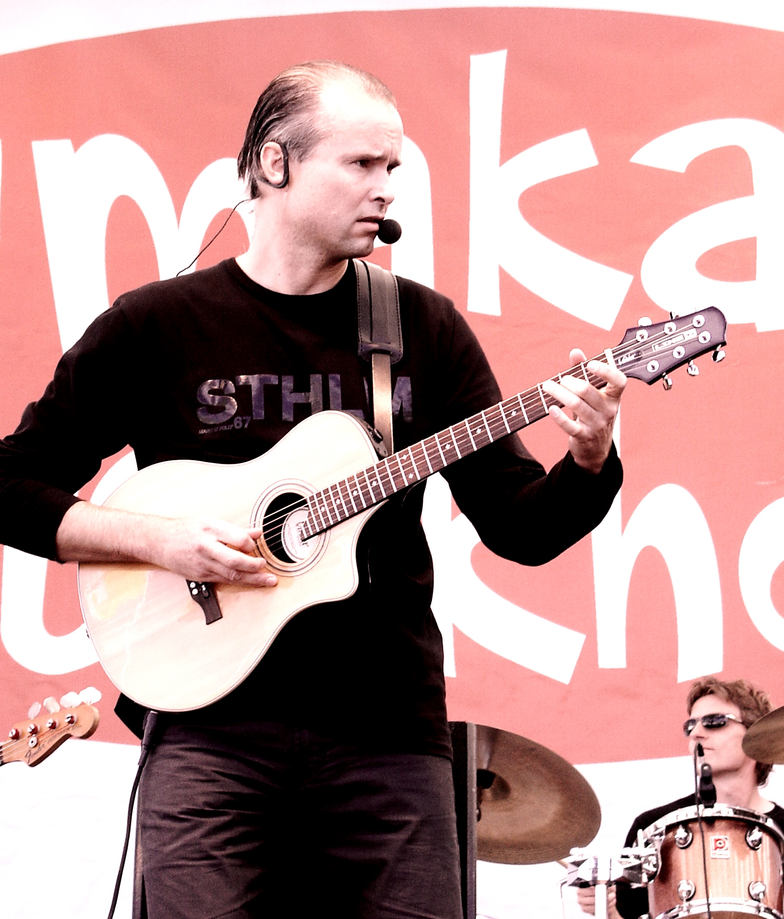 Erik Borelius giving a concert in Kungsträdgården, Stockholm 2006